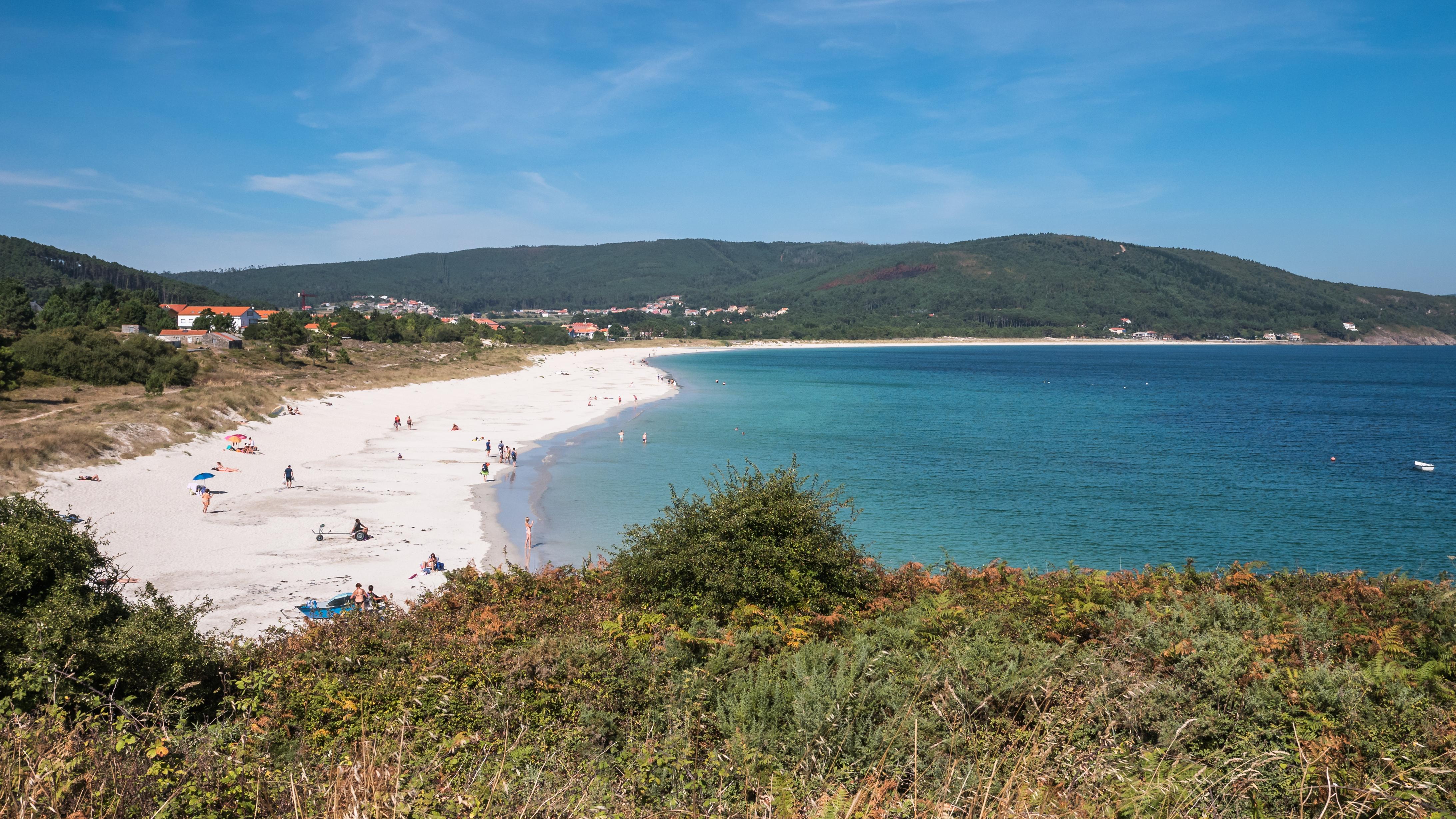 Praia da Langosteira Beach at Finisterre. La Coruña, Galicia, Spain